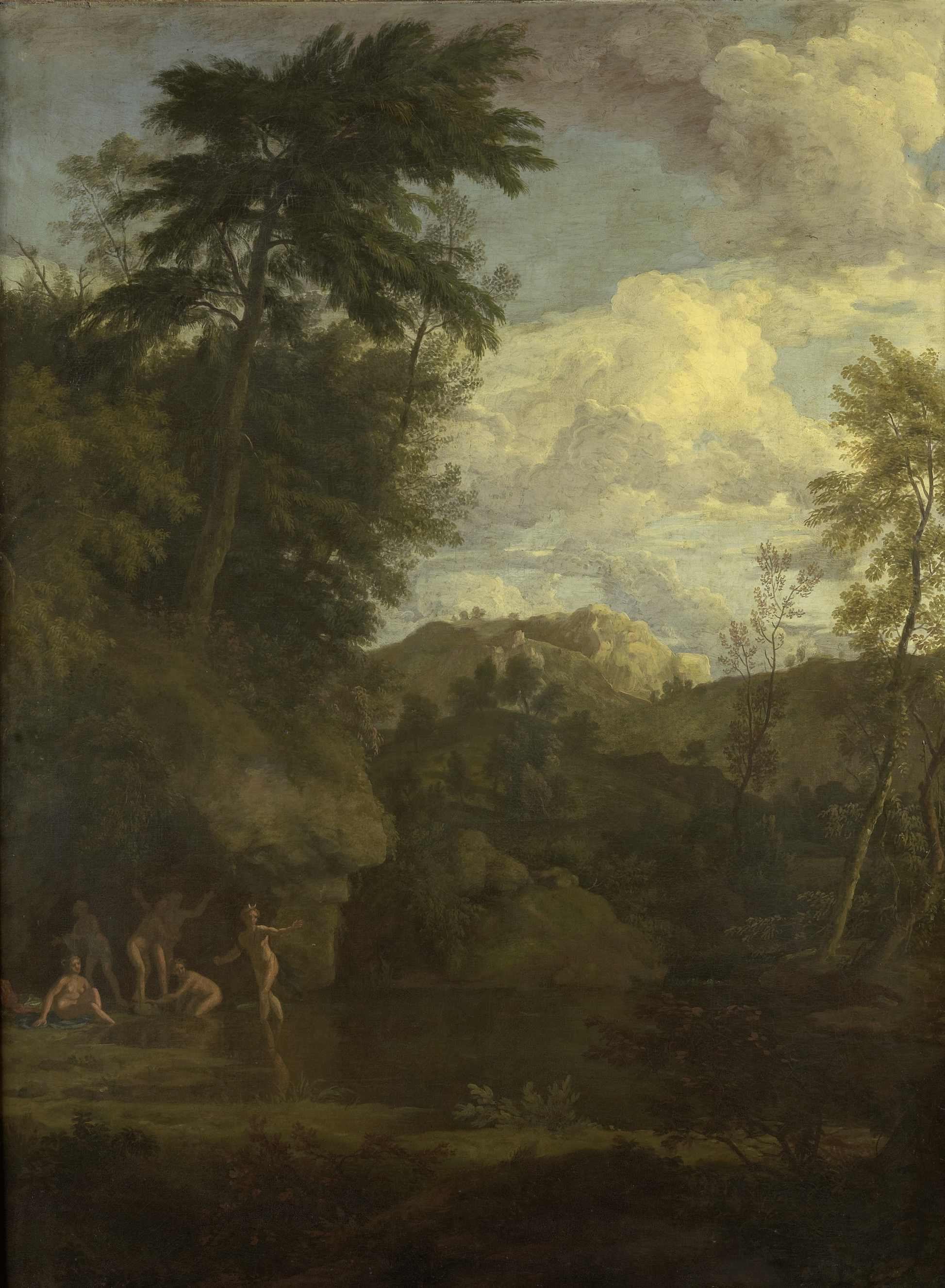 Arcadian landscape with Diana bathing with her companions in a lake surrounded by rocks and large trees. Probably part of a decoration scheme from Soestdijk Palace, that also included: Rijksmuseum SK-A-118, File:Arcadisch landschap met Jupiter en Io Rijksmuseum SK-A-1200.jpeg, Rijksmuseum SK-A-1201, File:Arcadisch landschap Rijksmuseum SK-A-1202.jpeg, File:Arcadisch landschap met Salmacis en Hermaphroditus Rijksmuseum SK-A-1217.jpeg and File:Johannes Glauber 001.jpg.